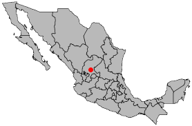 locator map of Zacatecas, Zacatecas, Mexico